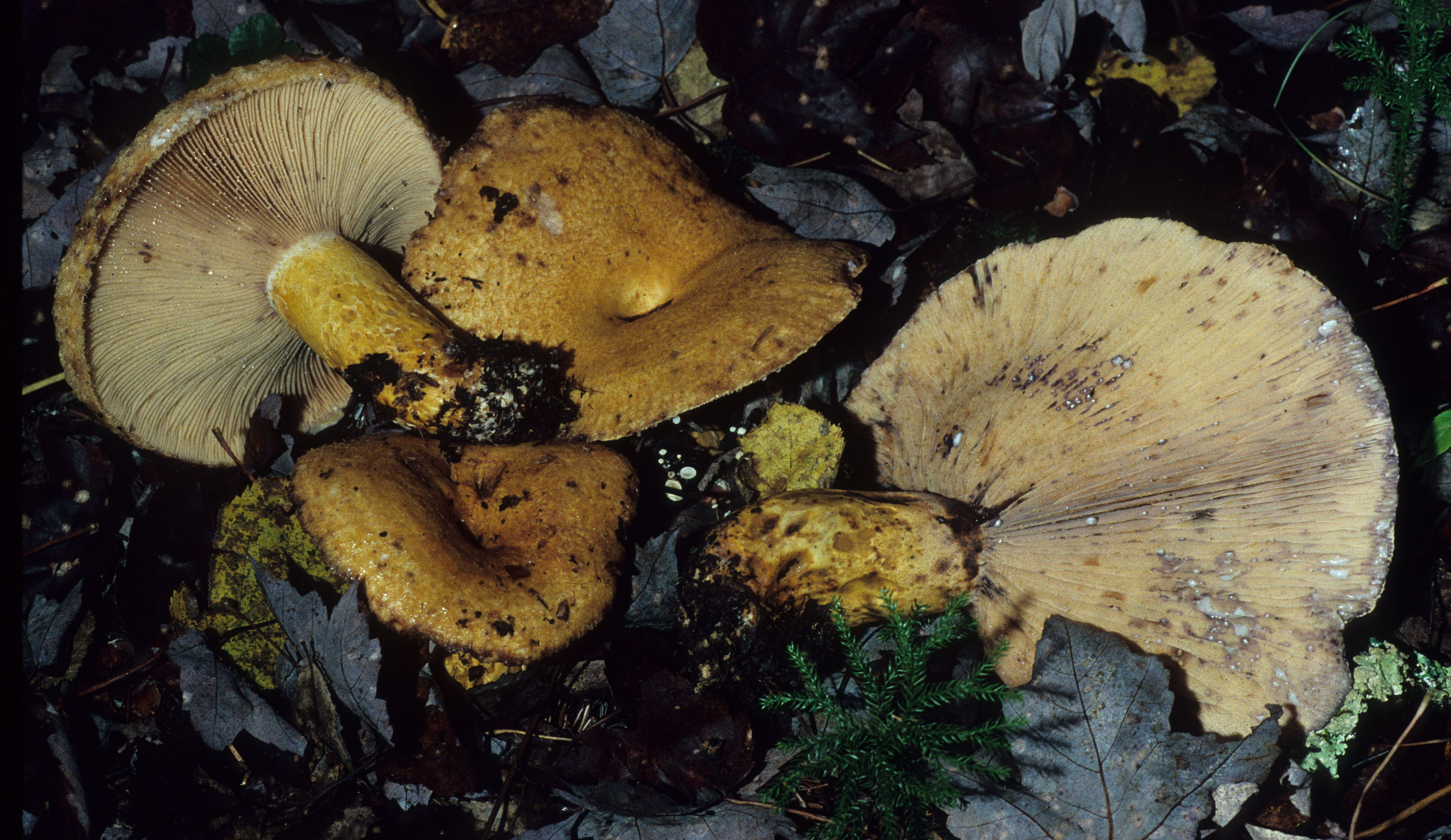 The milkcap mushroom Lactarius repraesentaneus Britzelm. Specimens photographed in Bonnechere Provincial Park, Ontario Canada. "Notes: Mixed woods."